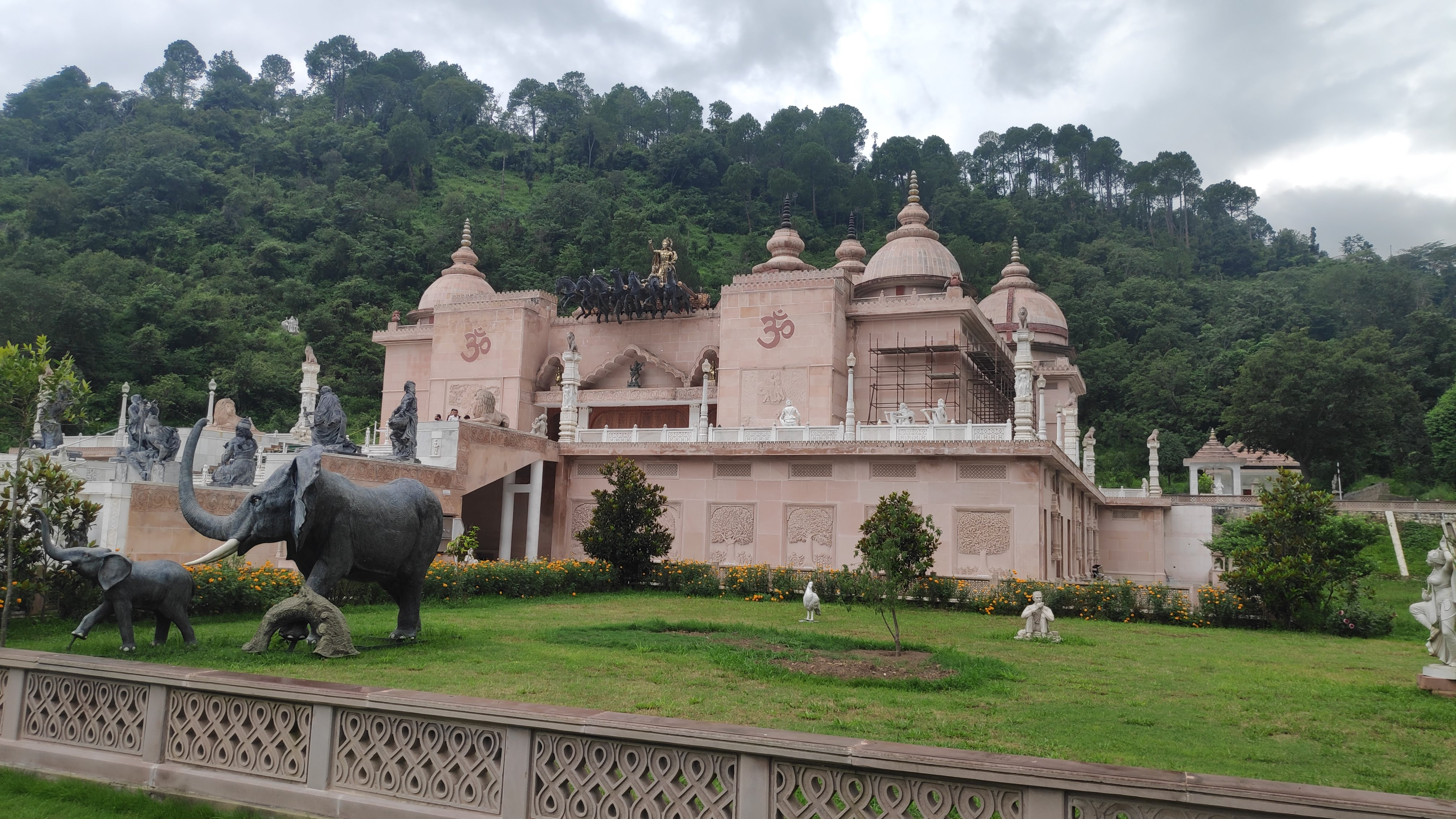 Mohan Shakti Heritage Park temple side view